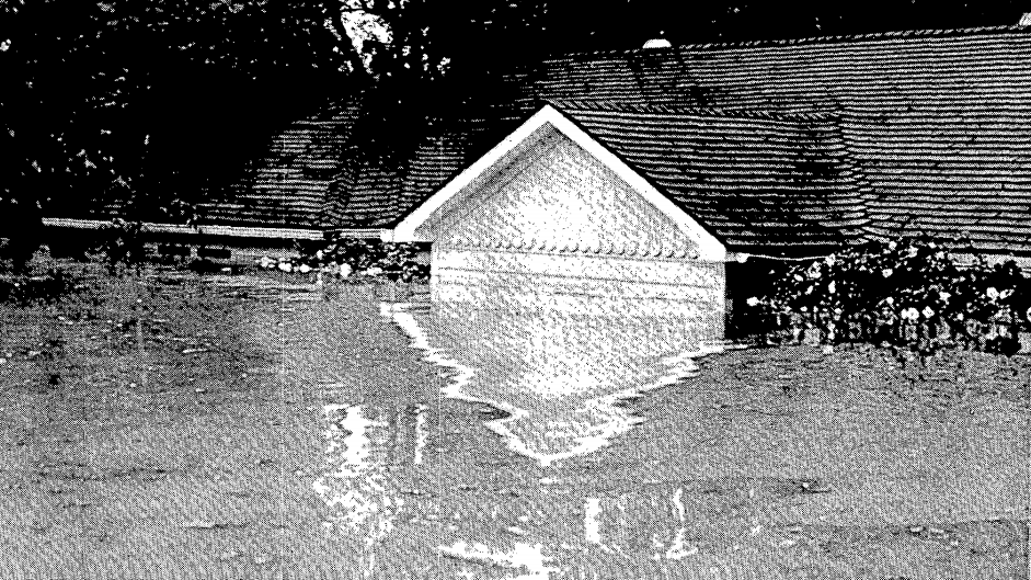 Floodwaters approaching the rooftop of a house in Hallettsville, Texas